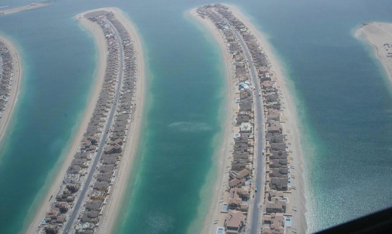 This is a photo showing the fronds on the Palm Jumeirah in Dubai, United Arab Emirates as seen from the air on 1 May 2007.